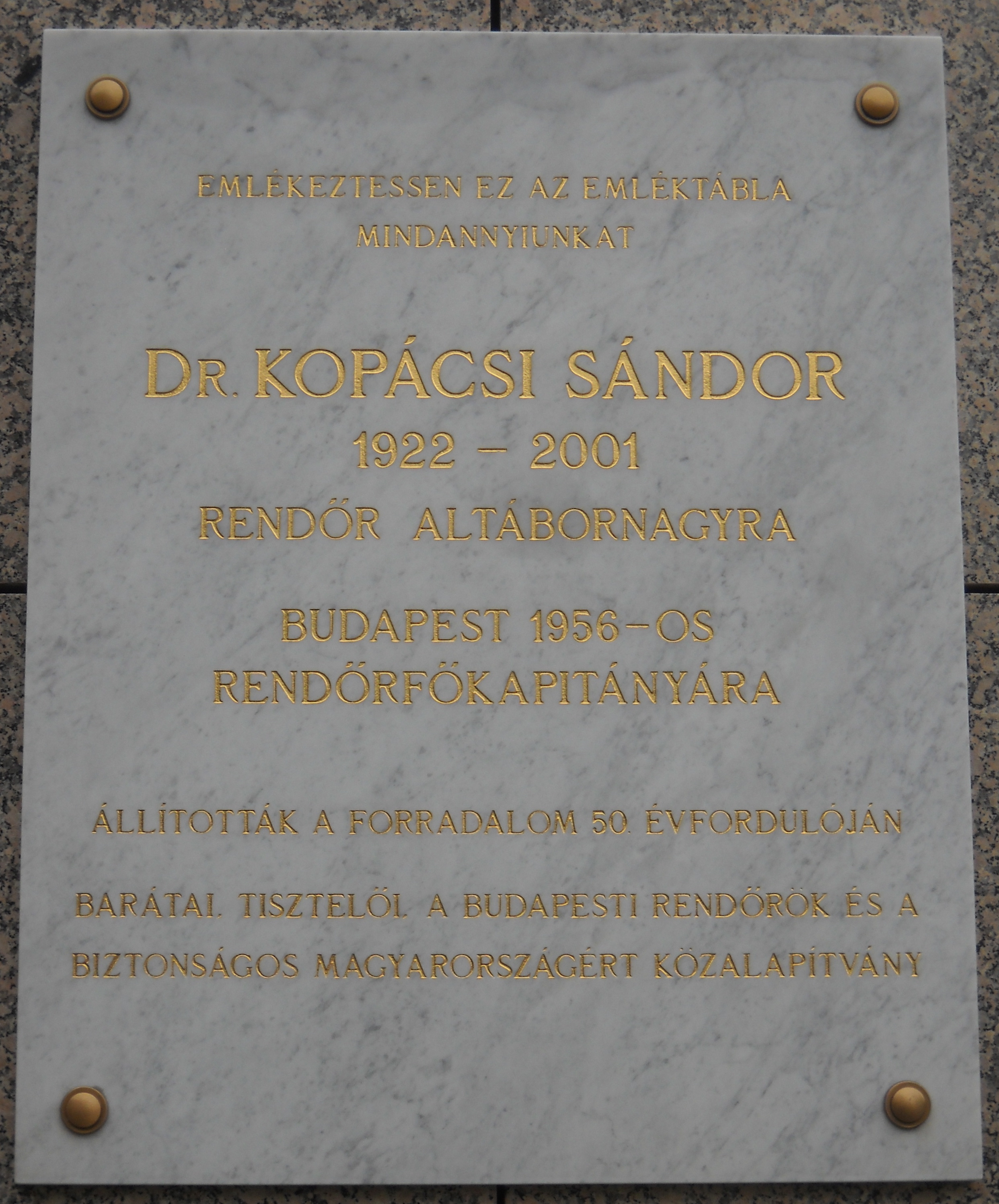 Commemorative plaque of Sándor Kopácsi in Budapest District XIII, Teve Street No 4